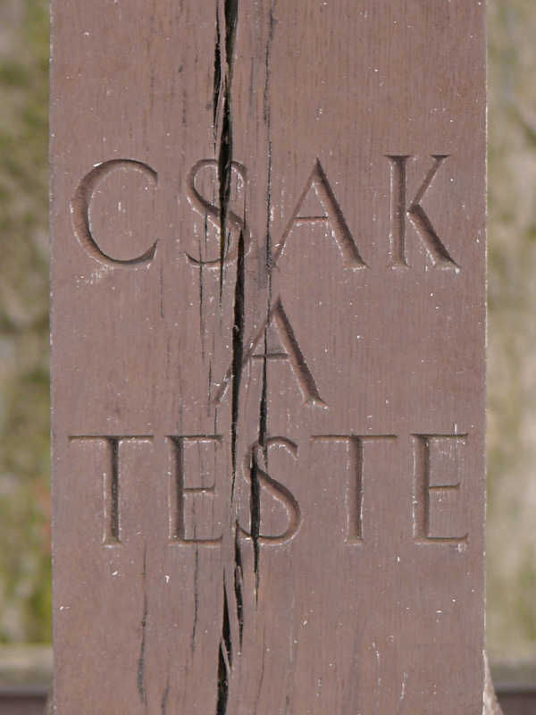 Inscription on the grave of Hungarian writer Géza Gárdonyi in Eger: "Only his body"